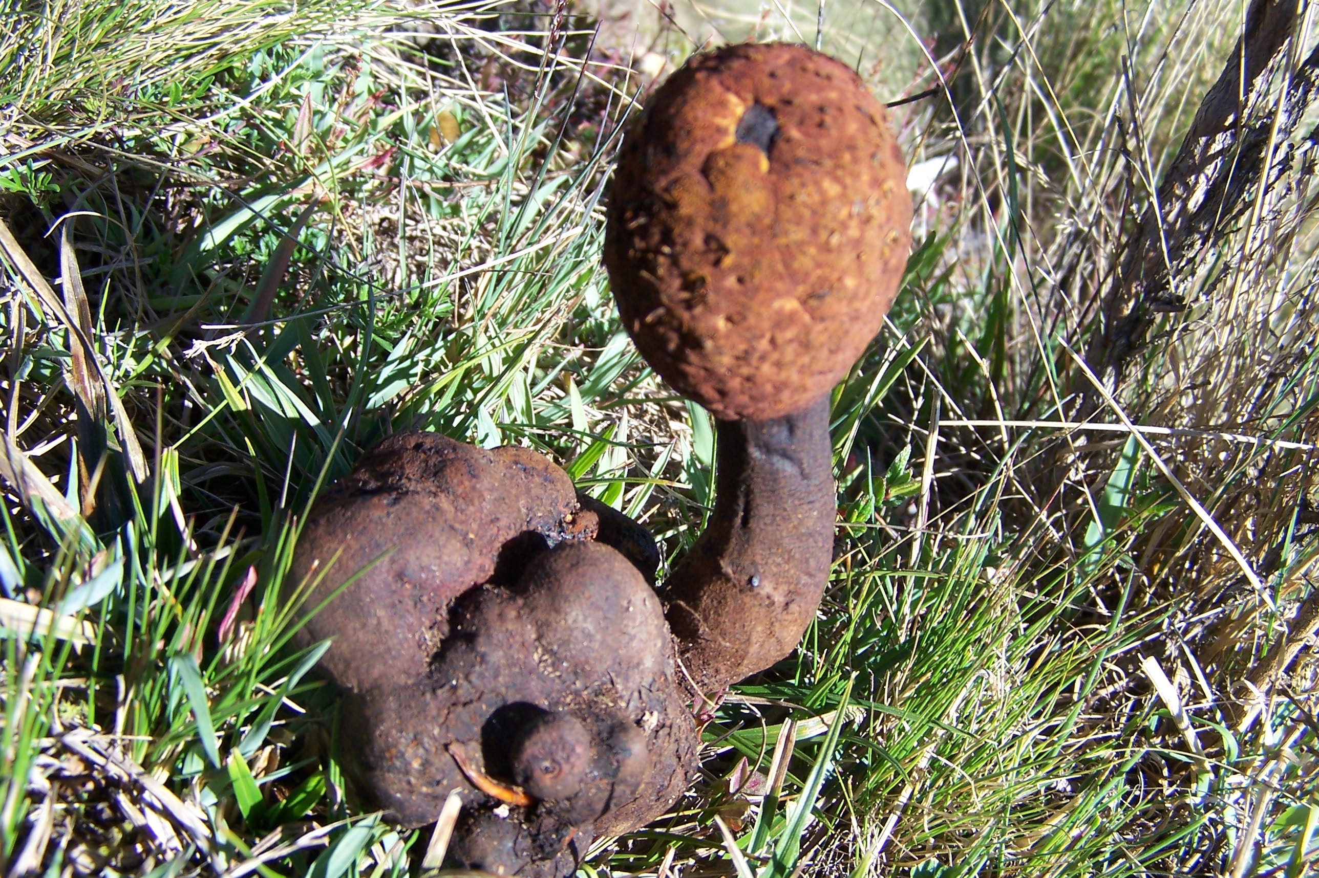 Planta parásita con forma del órgano genital masculino de allí el nombre común de "macho Huanarpo". Usado como revitalizador de la erección.